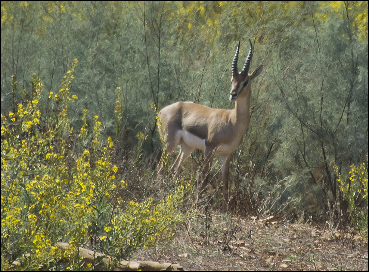 Israeli Gazelle (Gazella gazella gazella), Gazelle Valley, Jerusalem, Israel